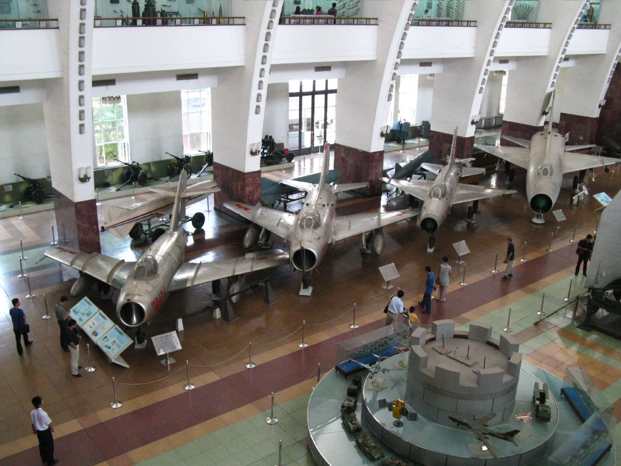 Aircraft in the Beijing military museum.